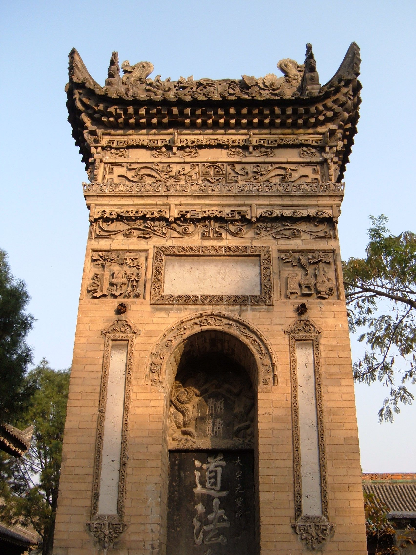 One of several large stone monuments found in one of the courtyards of the Great Mosque of Xi'an in Xi'an, PRC.